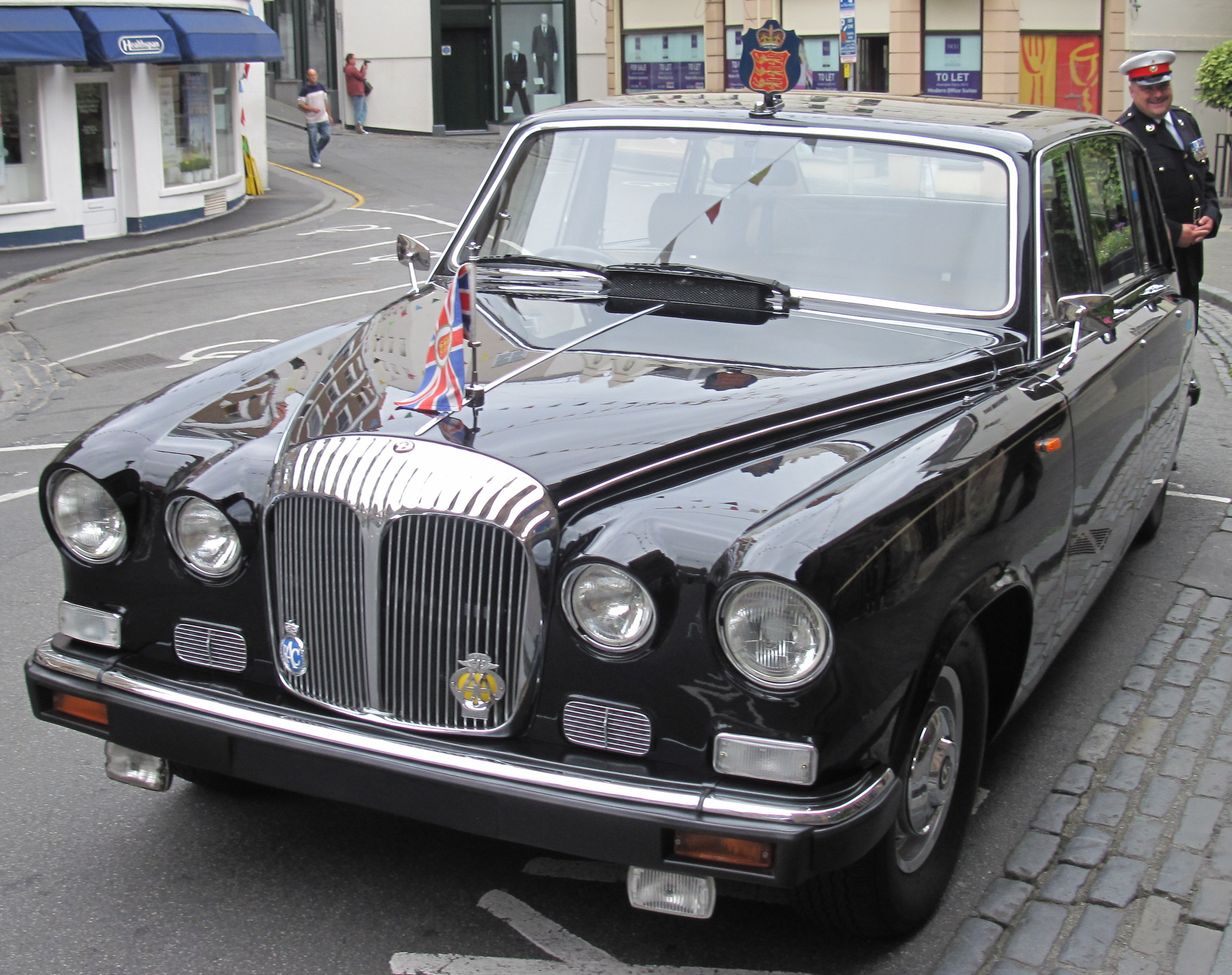 Parade and church service in Saint Peter Port, Guernsey, 16 September 2012